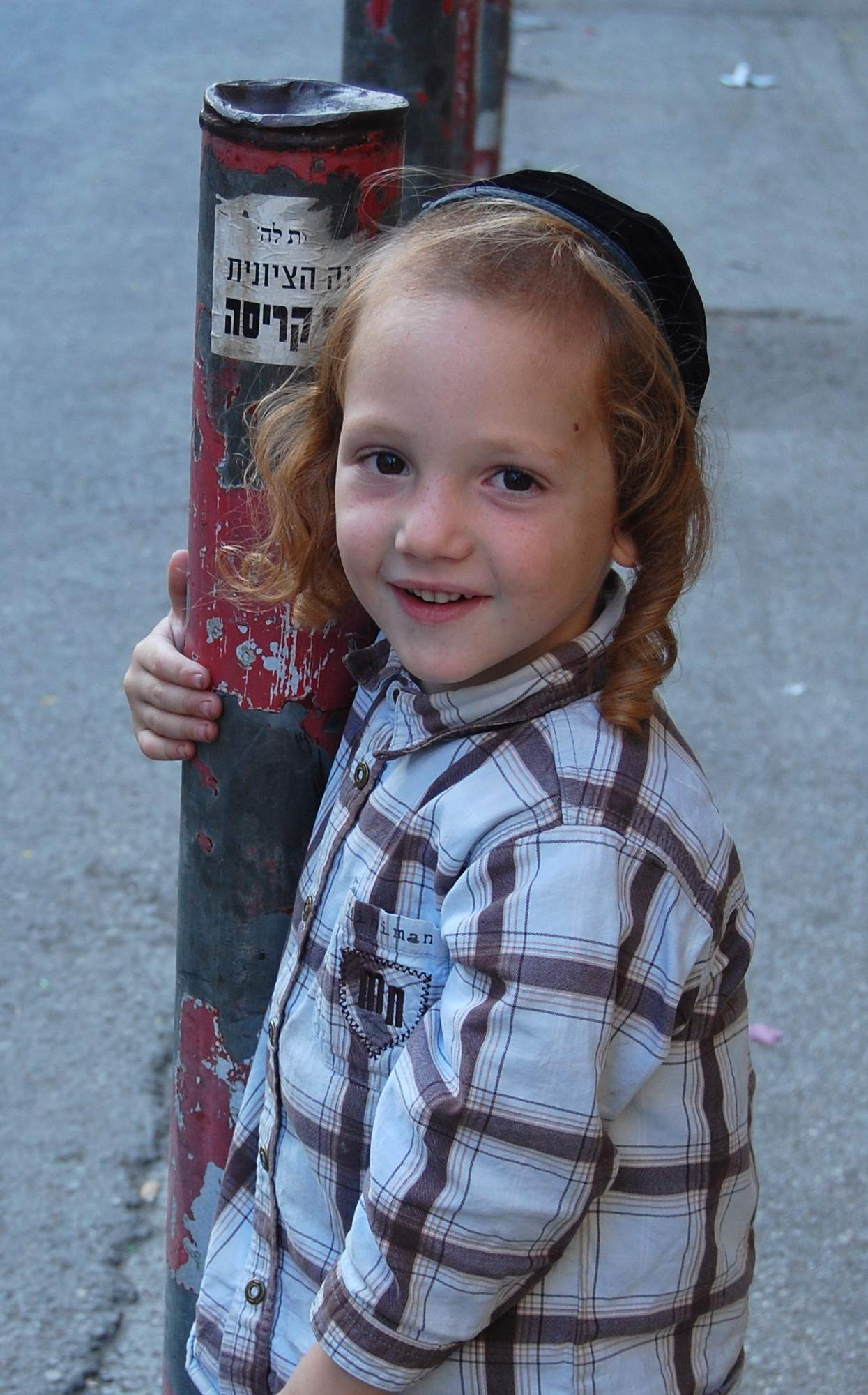 ילד חסידי במאה שערים